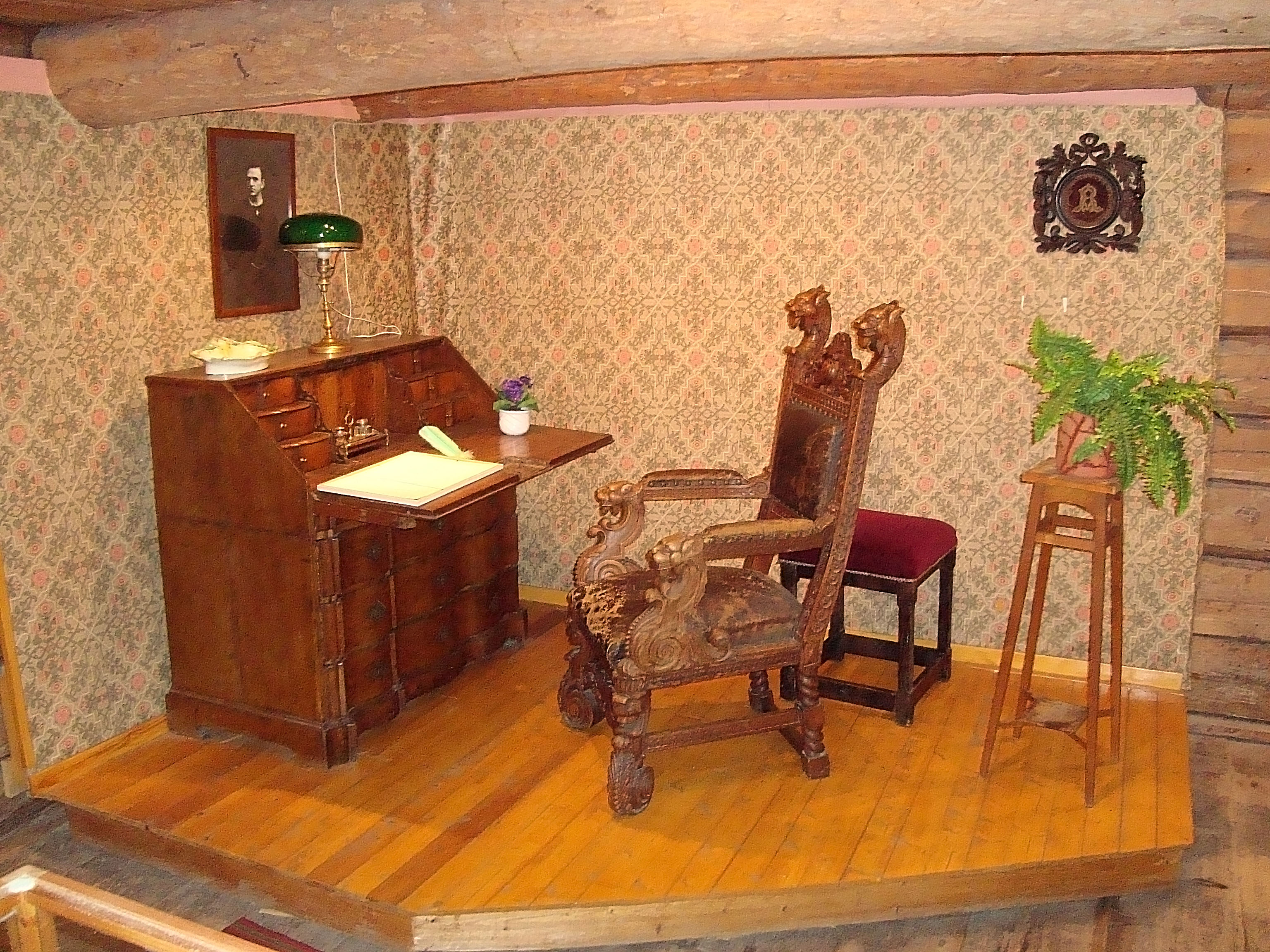 Museum of August Lindberg in the old theatre of Hedemora, Sweden.